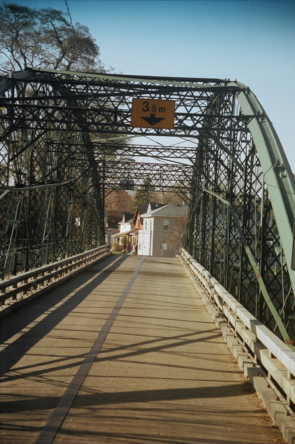 Blackfriars Bridge, London, Ontario